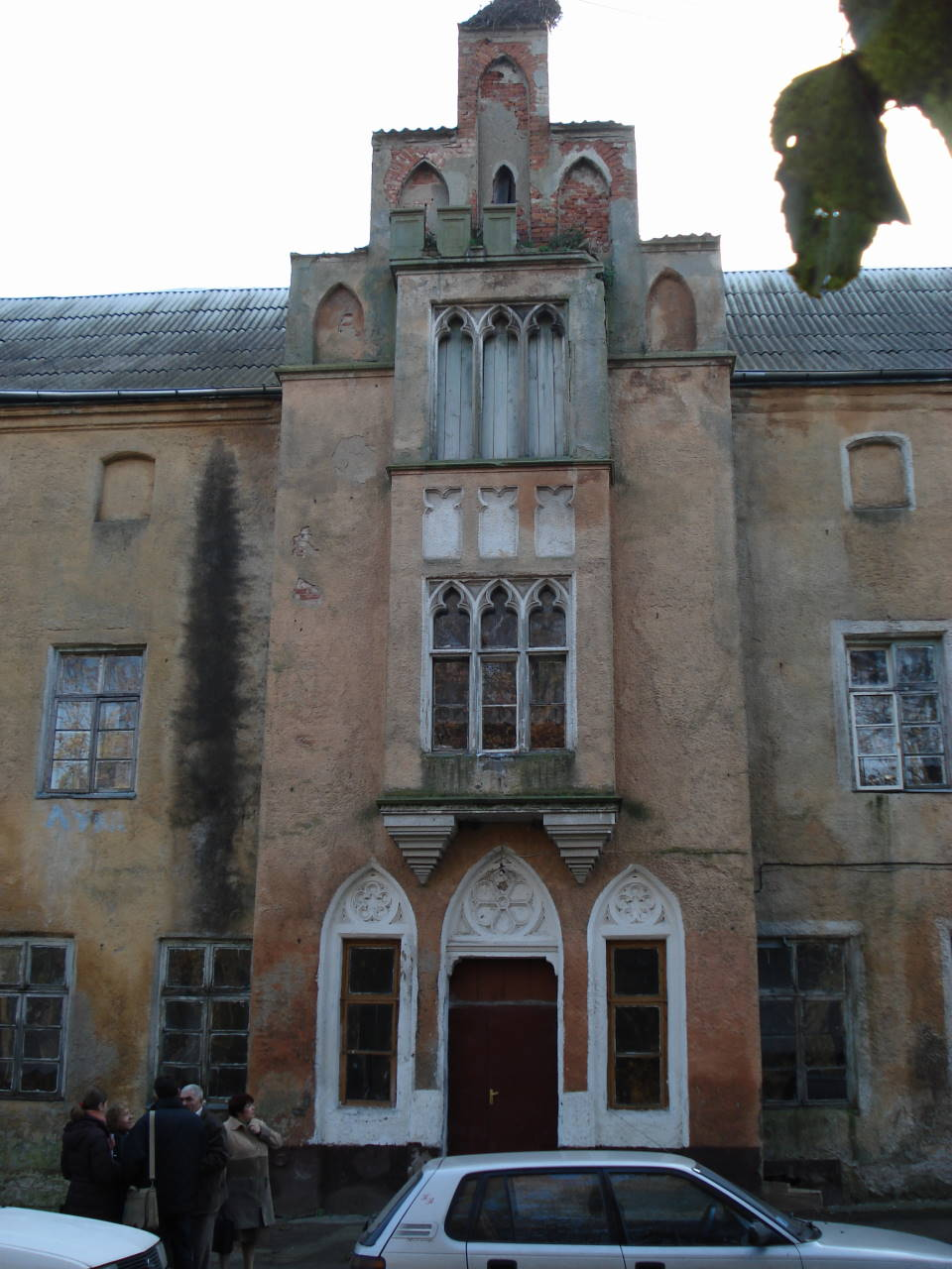 Waldau Castle in Nizowje (Oblast Kaliningrad), Southern wing